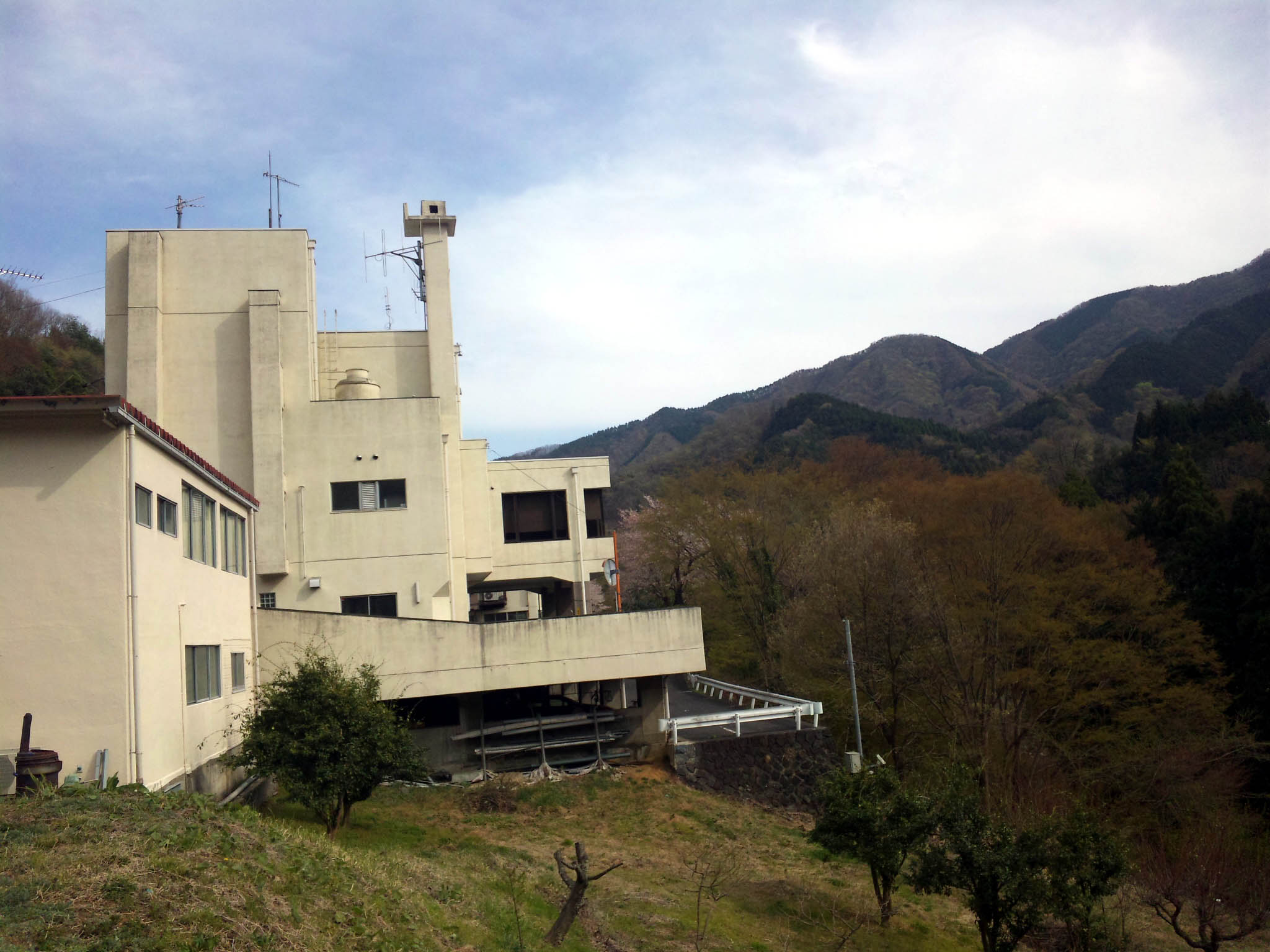 AKIYAMA Vil YAKUBA